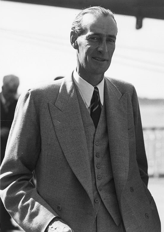 12th September 1947: Alan Melville (1910 - 1983) cricket captain of South Africa